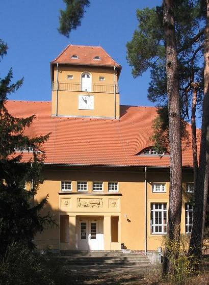 Cafeteria of „Landesinstitut für Schule und Medien Berlin-Brandenburg“ (german for: country institute for school and media Berlin-Brandenburg) in Struveshof, former „Landwirtschaftliche Erziehungsanstalt“ (german for: agrarian reformatory), built in 1914ff, since 1961 part of Ludwigsfelde. Nearly the whole settlement is listed. Ludwigsfelde is a town in the district Teltow-Fläming, state Brandenburg, Germany.)